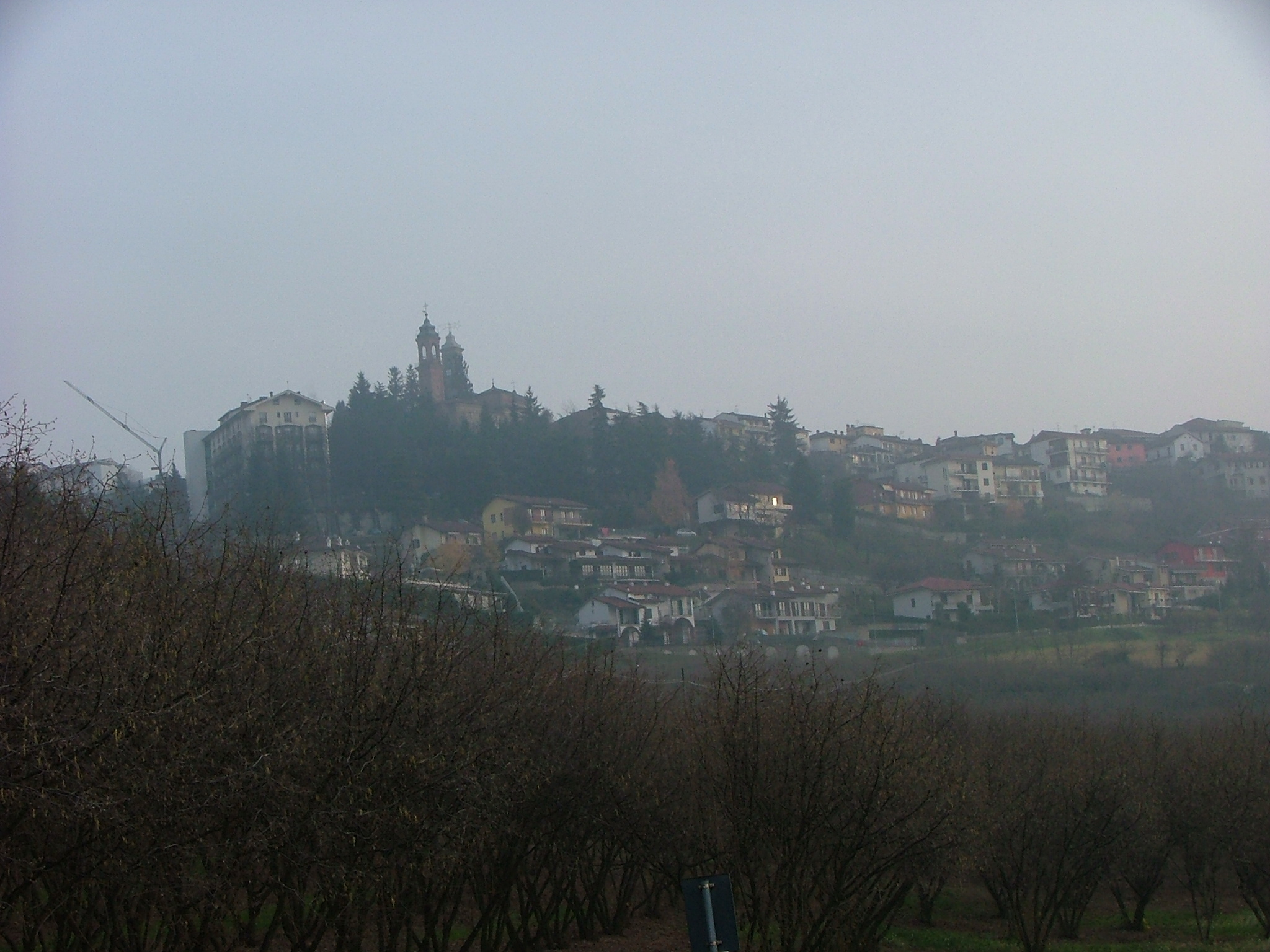 A view of Rodello, a town in the province of Cuneo